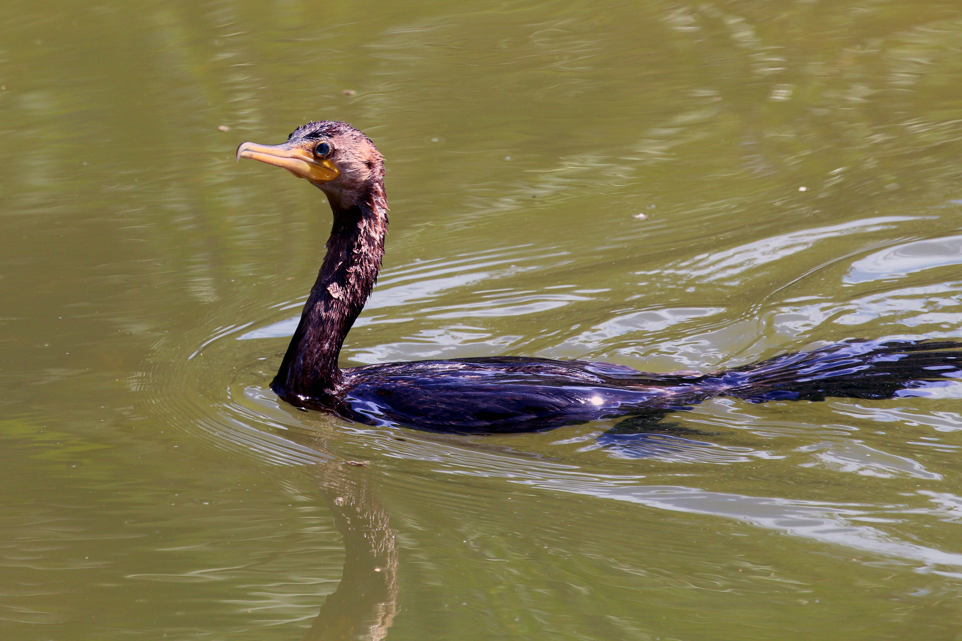 Neotropic cormorant (Phalacrocorax brasilianus), Cuba